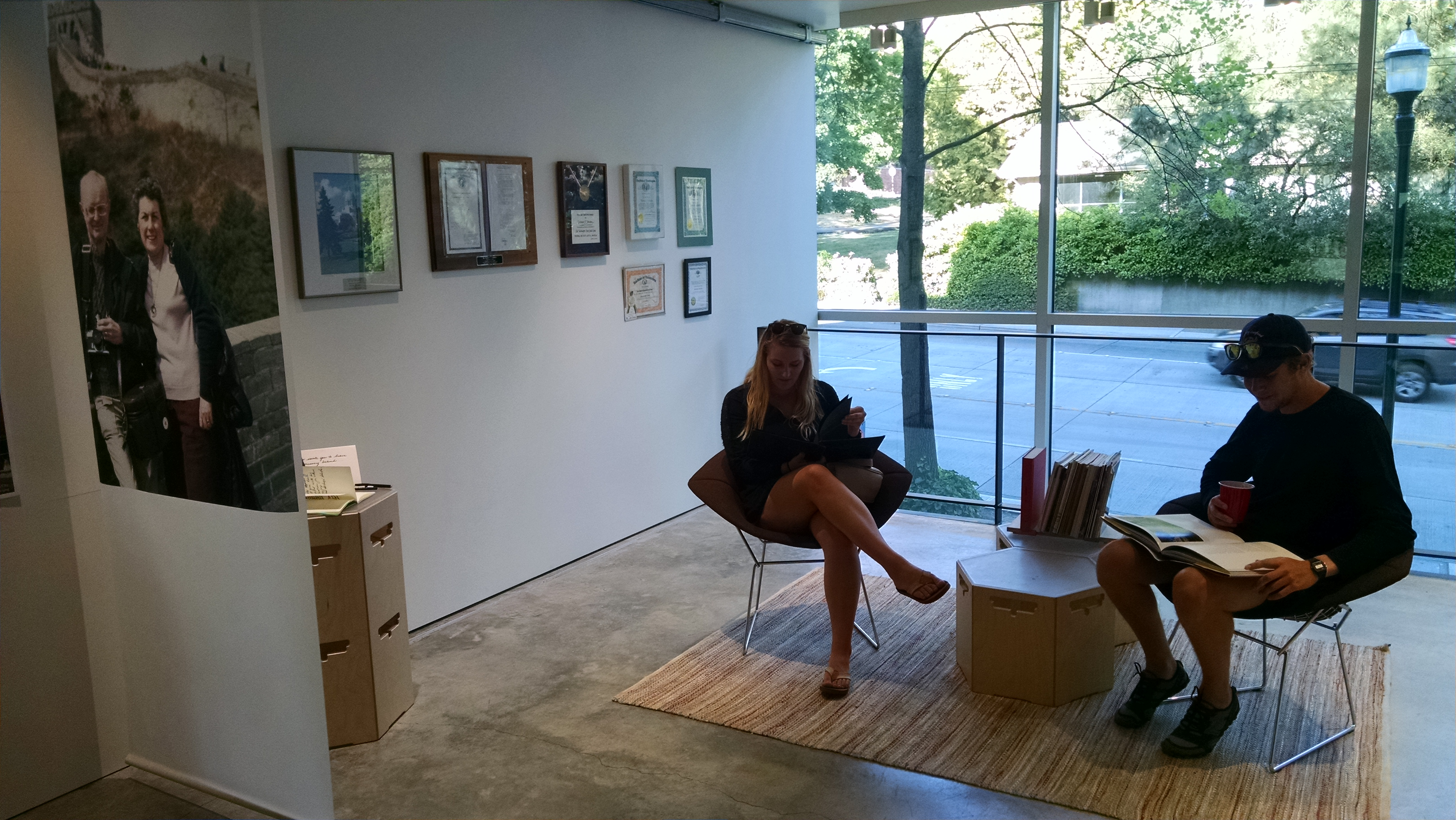 Norman Johnston and L. Jane Hastings Gallery, a permanent exhibit & teaching space honoring the legacy of Norman and Jane at UW and the College of Built Environments. - See more at